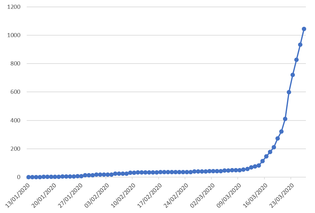 COVID-19 Graph as of 2020-03-26 in Thailand